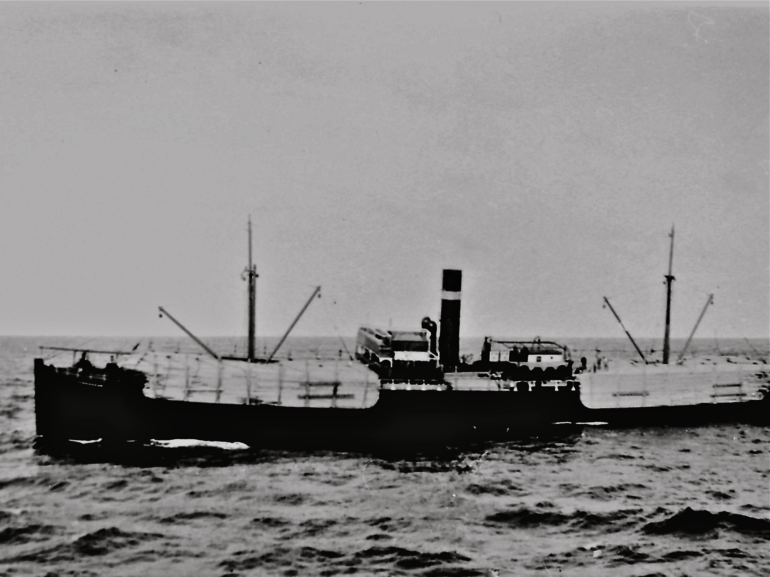 A digitized photograph of SS Kuressaar from the late 1930's.